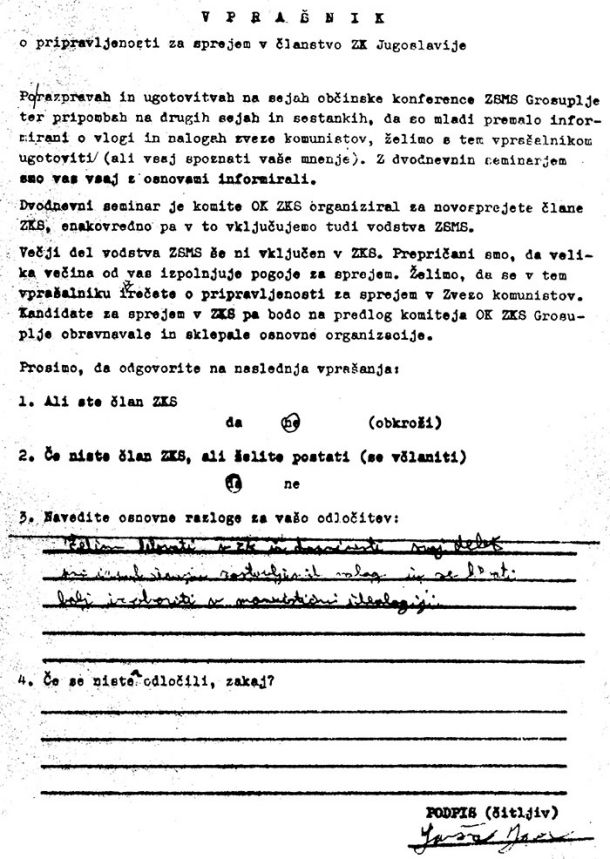 Communist party questionairefilled out by Ivan Janez Janša.